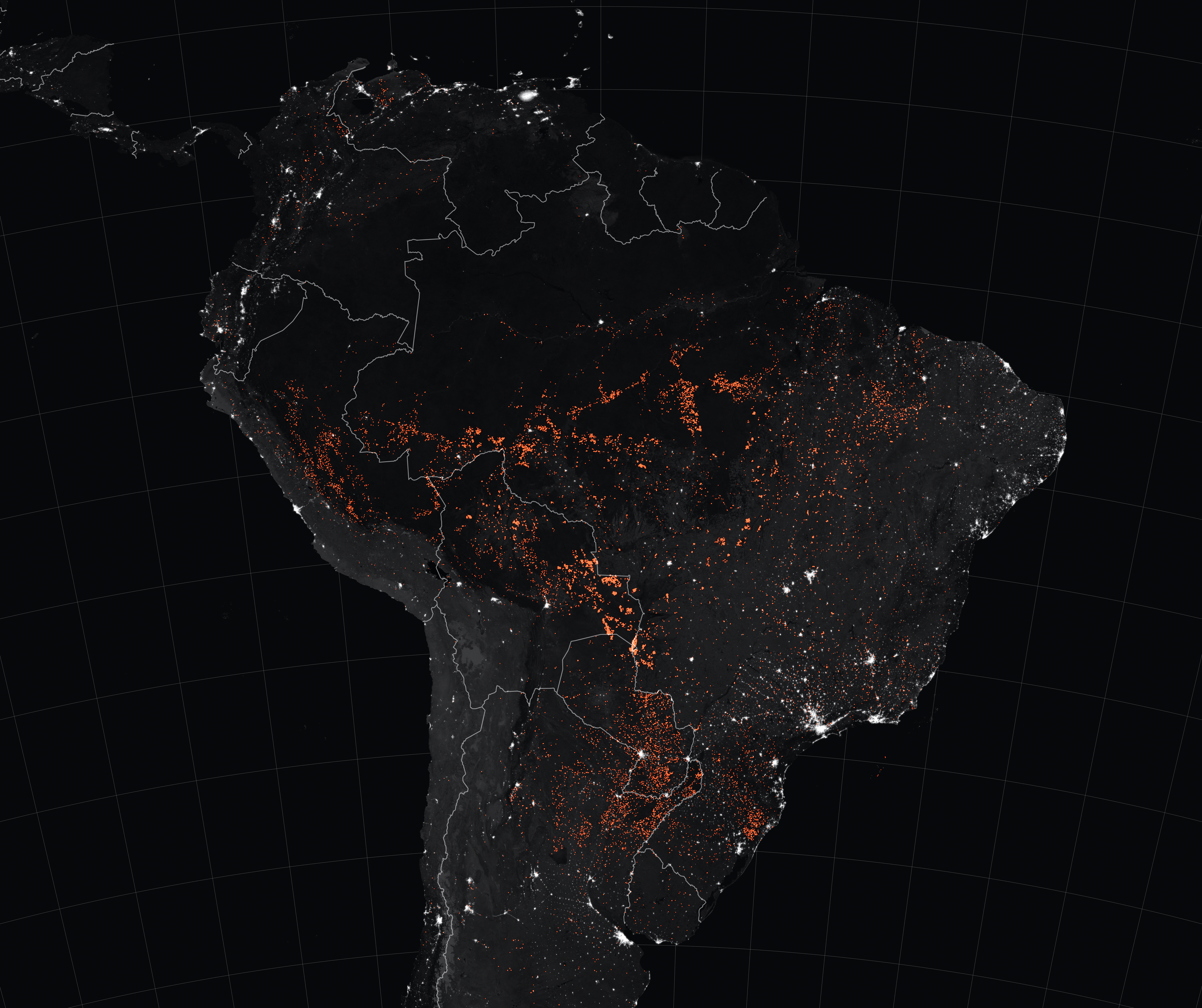 Amazon fires 15-22 August 2019. satellite image taken by MODIS.